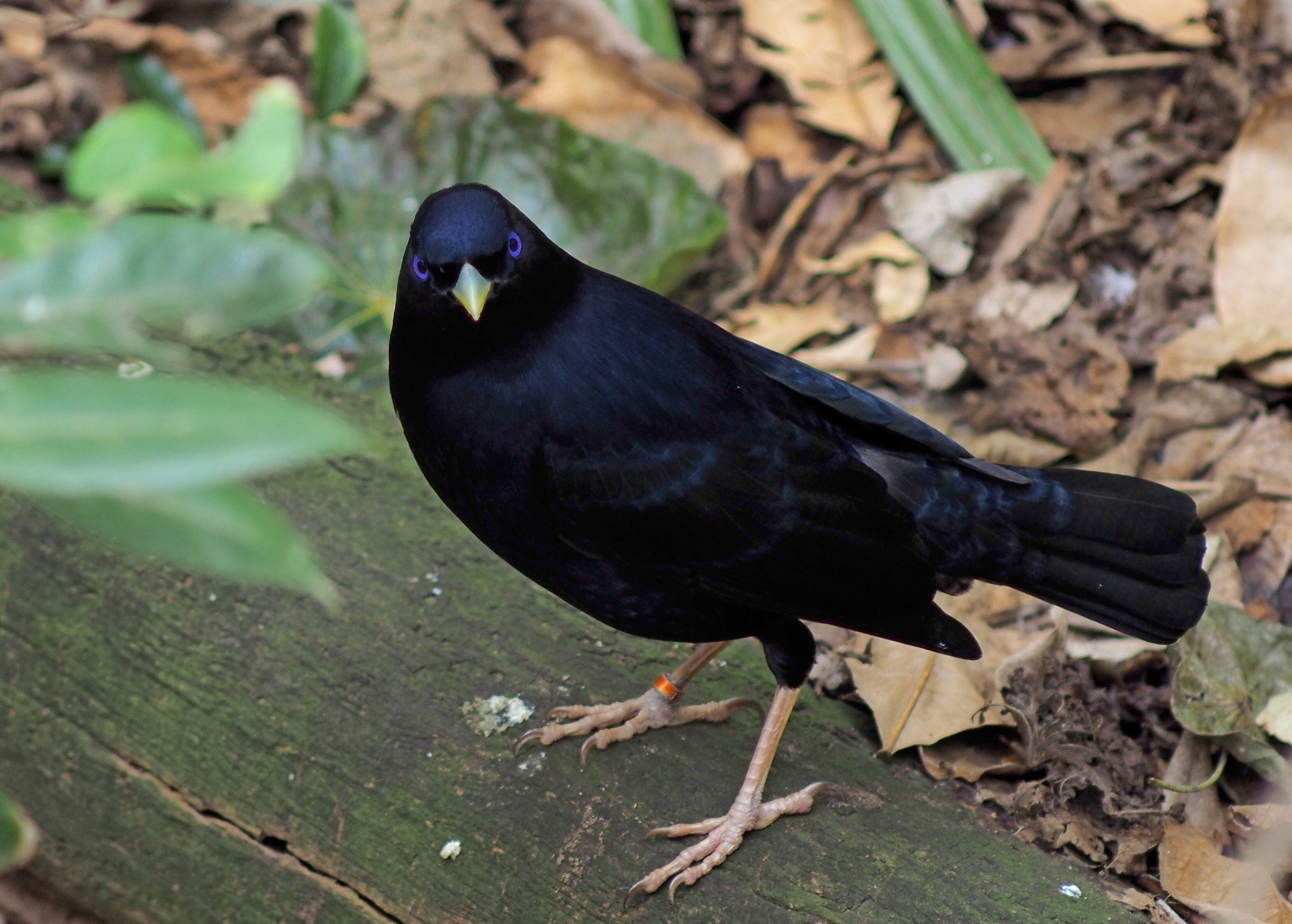 Male Satin Bowerbird Ptilonorhynchus violaceus, Ipswich Queensland Australia